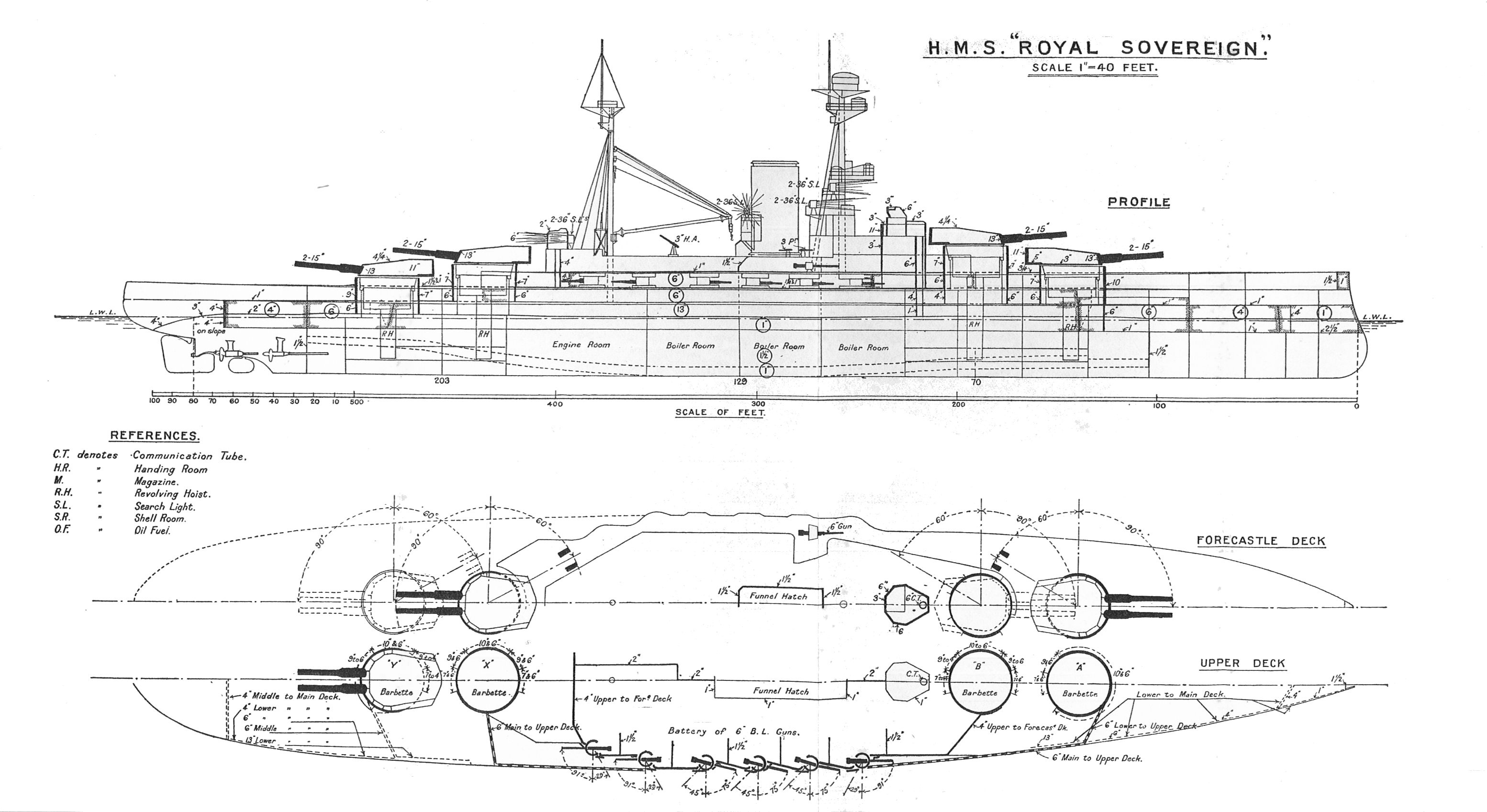 Fig. 23 C.T.Communication TubeH.R.Handing RoomM.MagazineR.H.Revolving HoistS.L.Search LightS.R.Shell RoomO.F.Oil Fuel